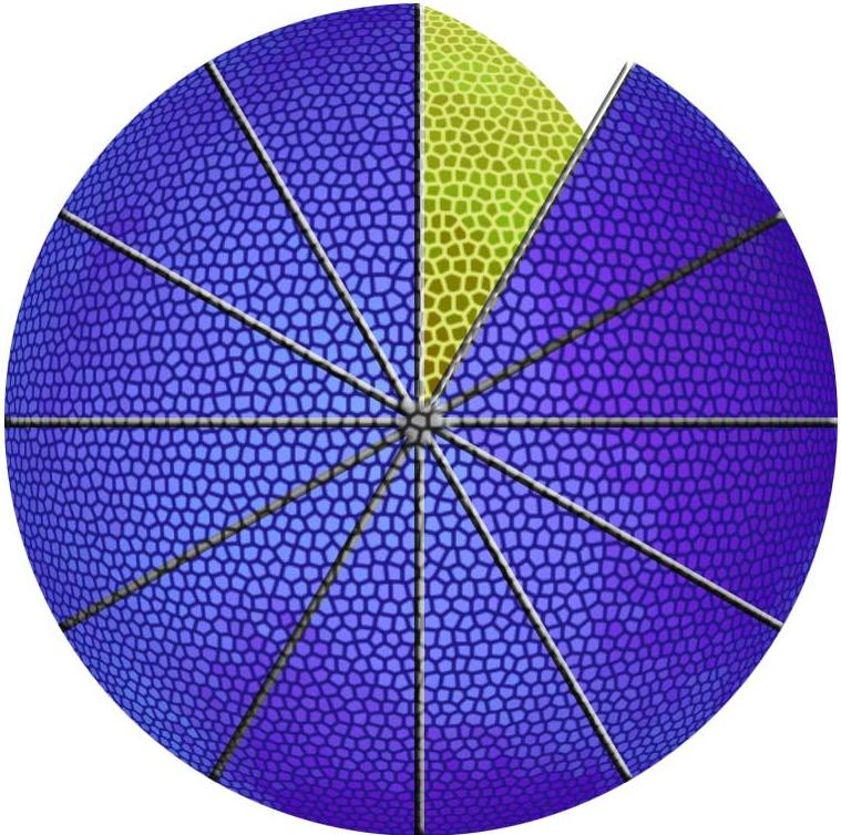 1/12 from Carbon-12